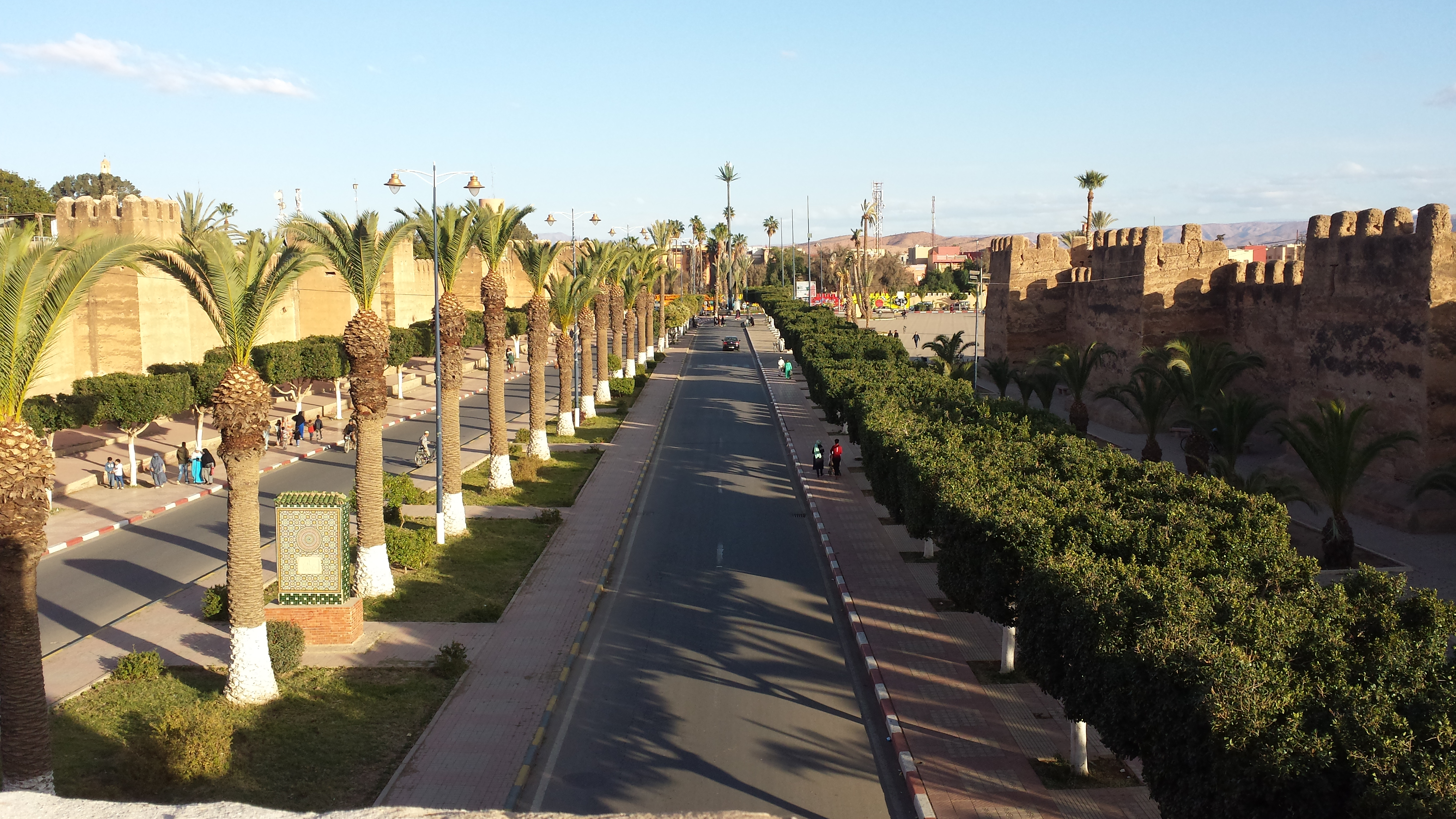 This is an image with the theme "Africa on the Move or Transport" from: Morocco